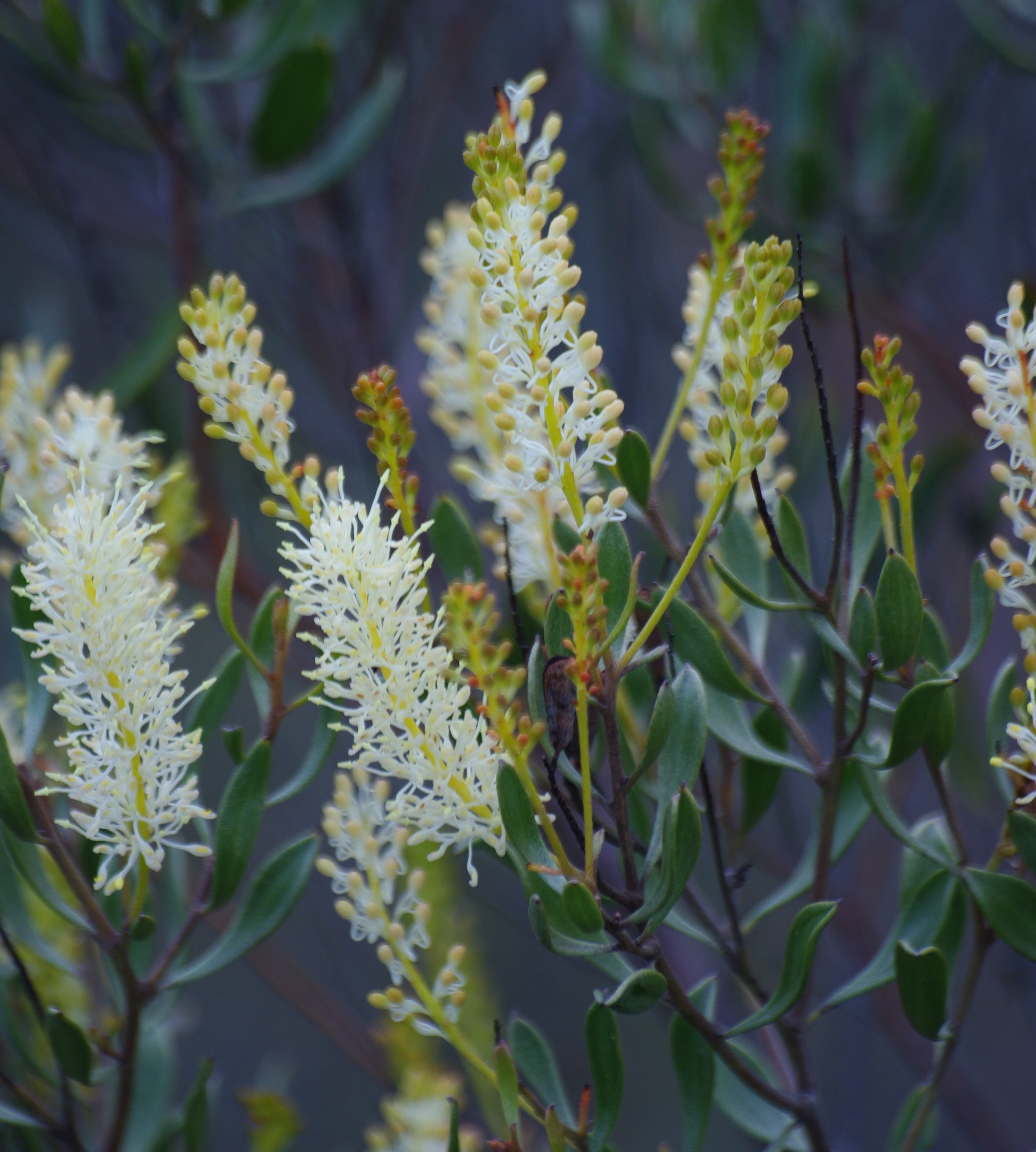 Grevillea integrifolia Entire-Leaved Grevillea Photographed in bushland adjacent to the Cemetery, Quairading Western Australia Flora Base description